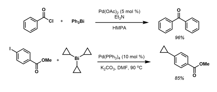 Examples of Bi(III) transferring carbon to a new metal center